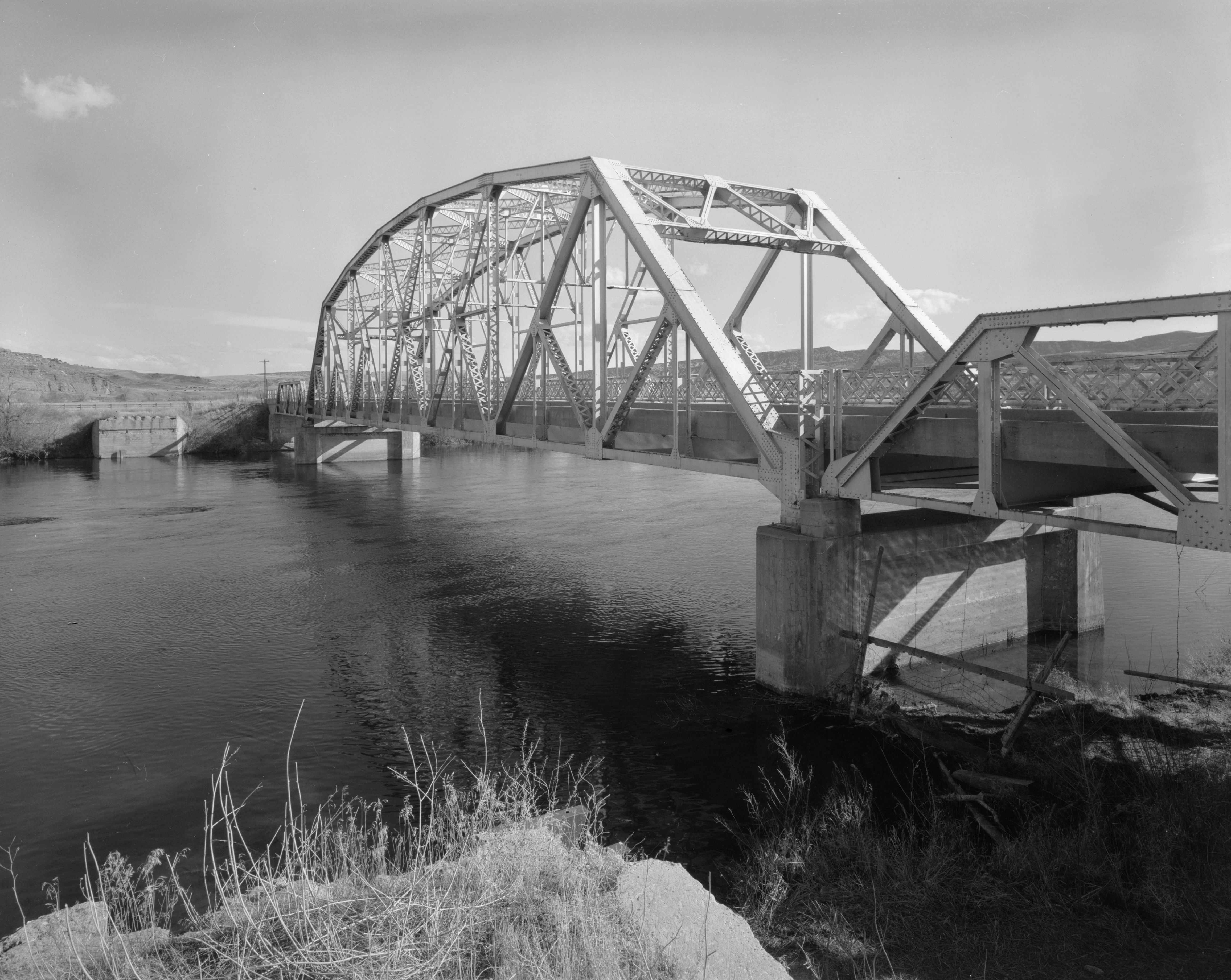 Eastern side of the CQA Four Mile Bridge, which carries WYO 173 over the Bighorn River near Thermopolis in Hot Springs County, Wyoming, United States. Built in 1927, this Pennsylvania through truss bridge is listed on the National Register of Historic Places.